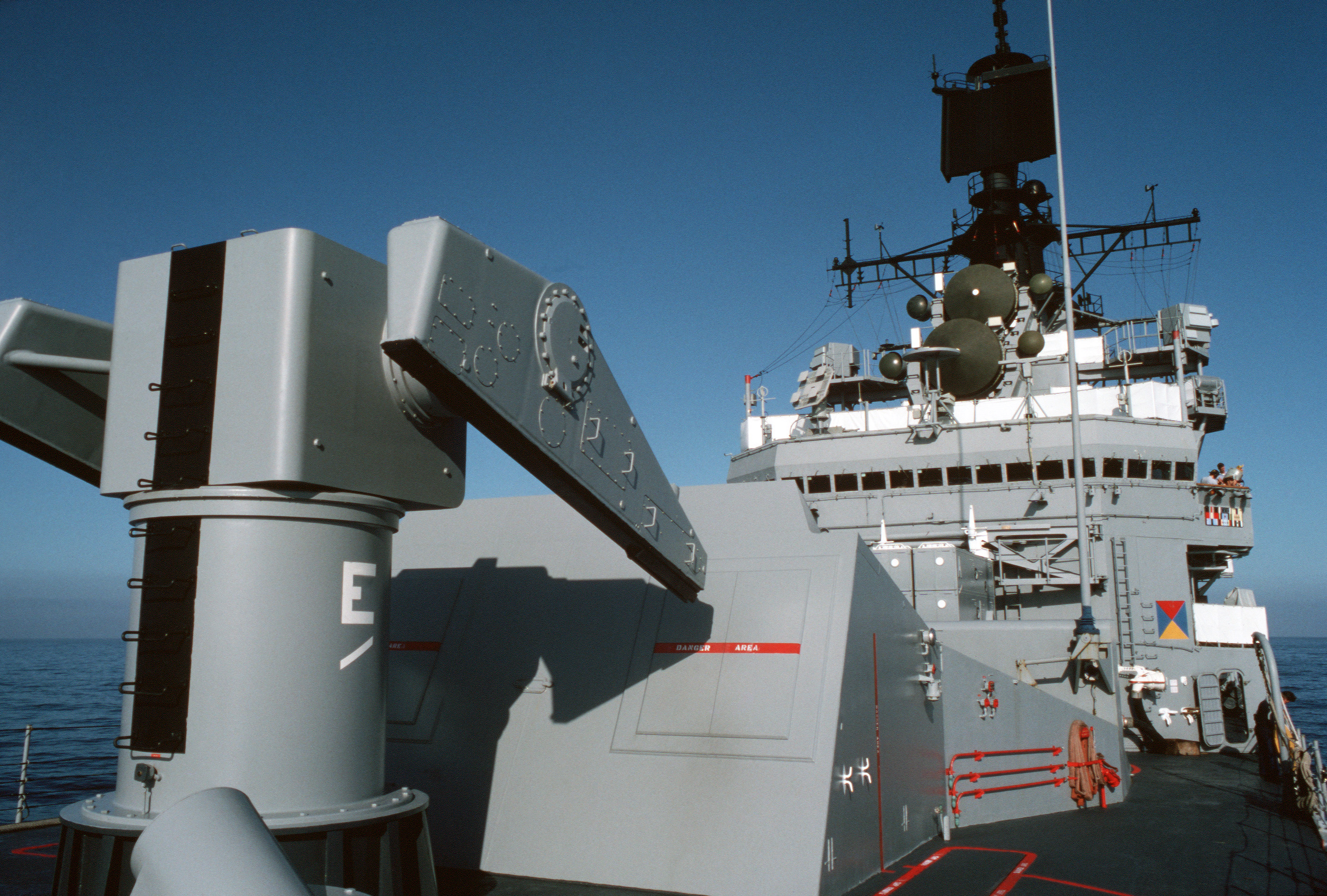 View of the forward Mark 10 Mod 5/6 missile launcher aboard the U.S. Navy guided missile cruiser USS Worden (CG-18) on 1 July 1986. The ship was participating in a midshipmen's summer training cruise.